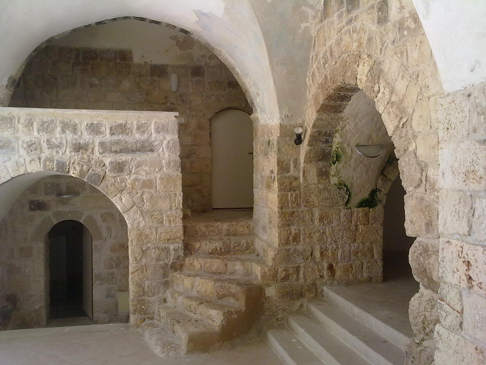 Albarqawe castle